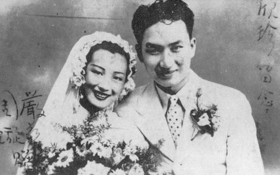 Photo of Zhouxuan and Yanhua